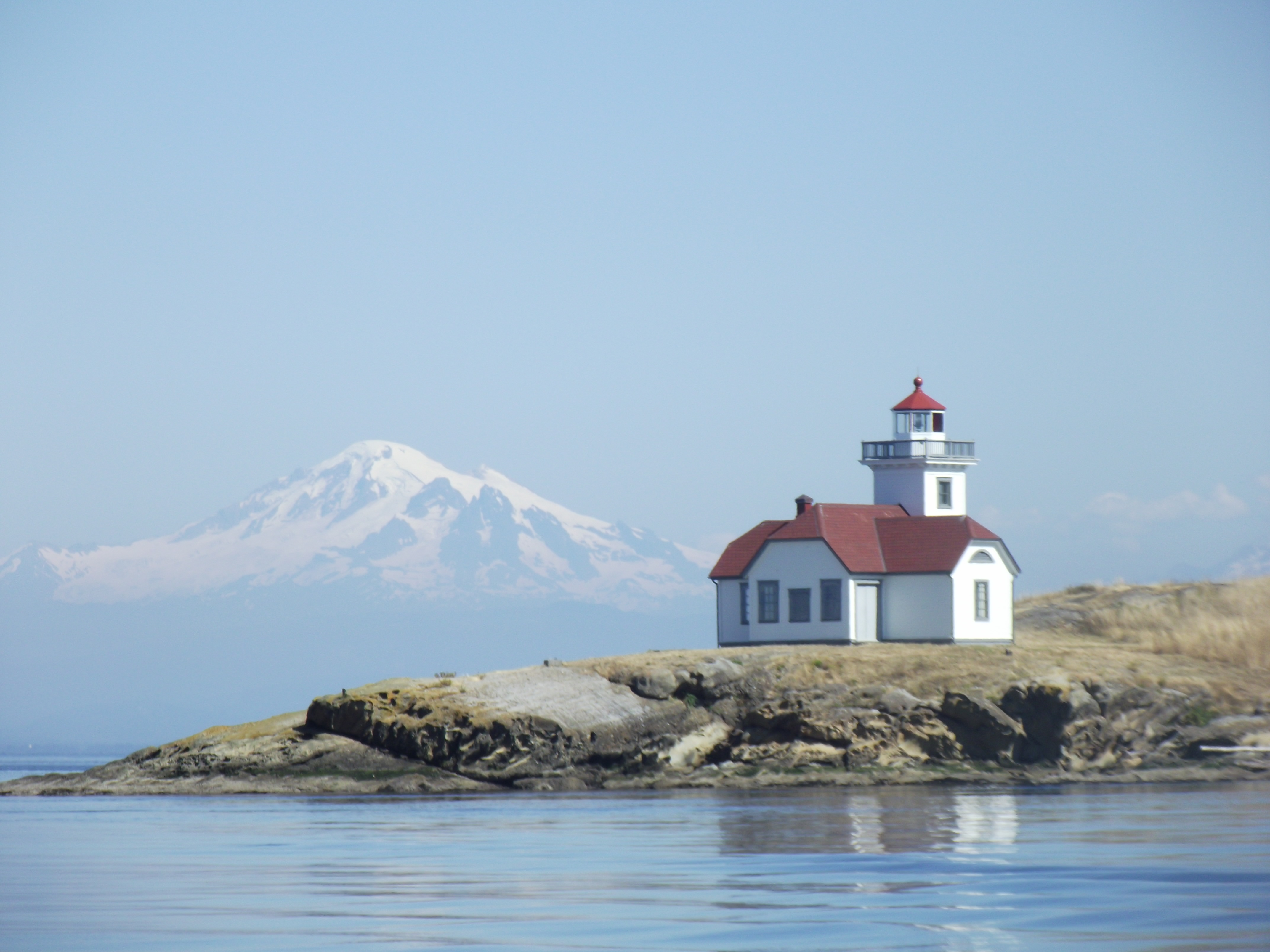 Patos Island Light Station